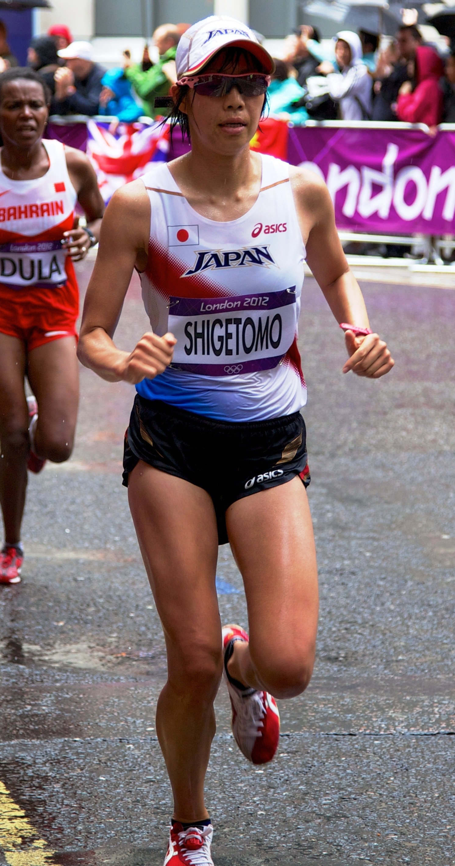 Women's Marathon at the 2012 Summer Olympics, Lishan Dula, Risa Shigetomo.